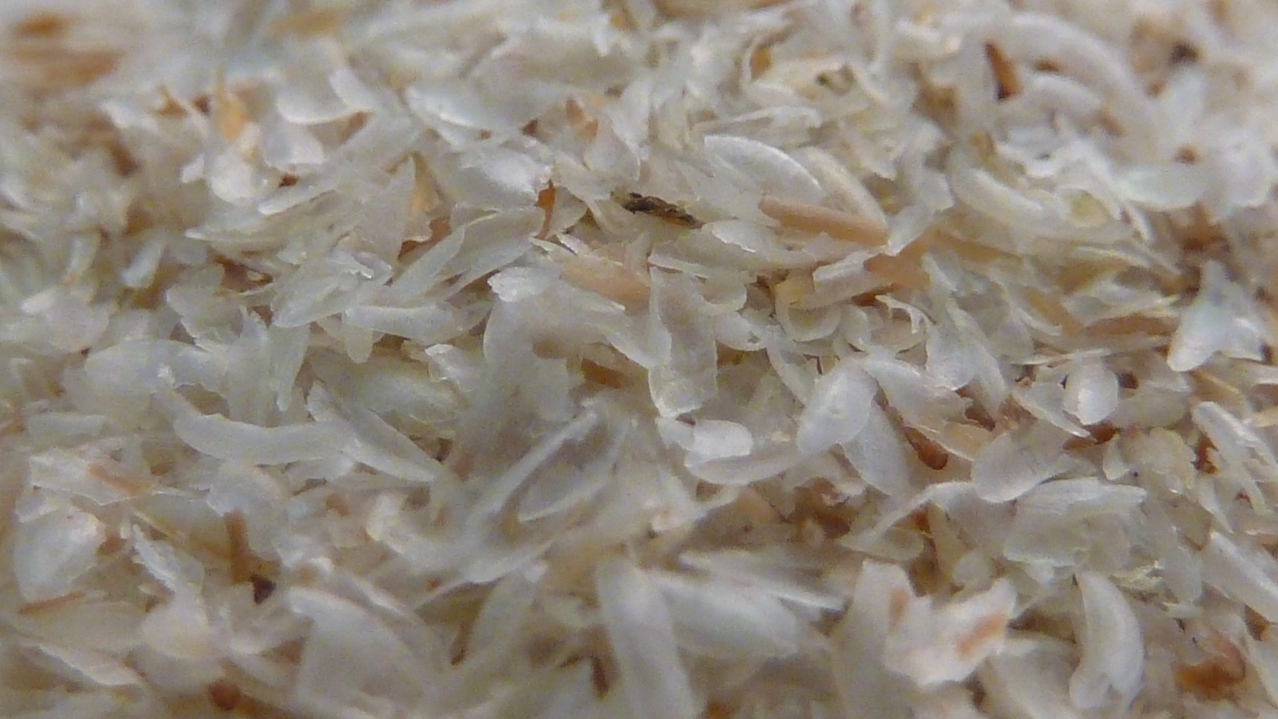 Macro zoom photograph of psyllium seed husks